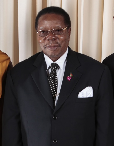 Bingu wa Mutharika at the Metropolitan Museum in New York.